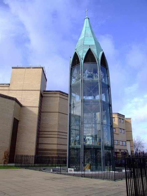 Bell tower of St Martin of Tours parish church, Basildon, Essex